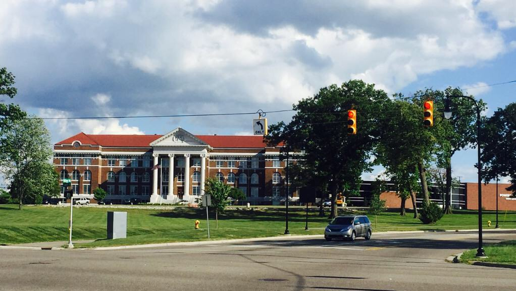 Fay Hall from Court St, Aug 2015